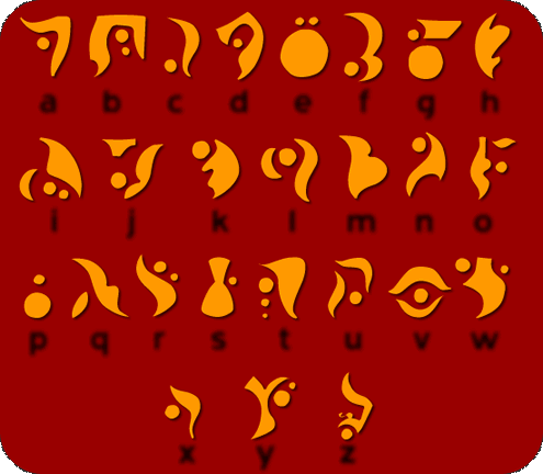 The Alphabet of the Jak & Daxter Video Game Series